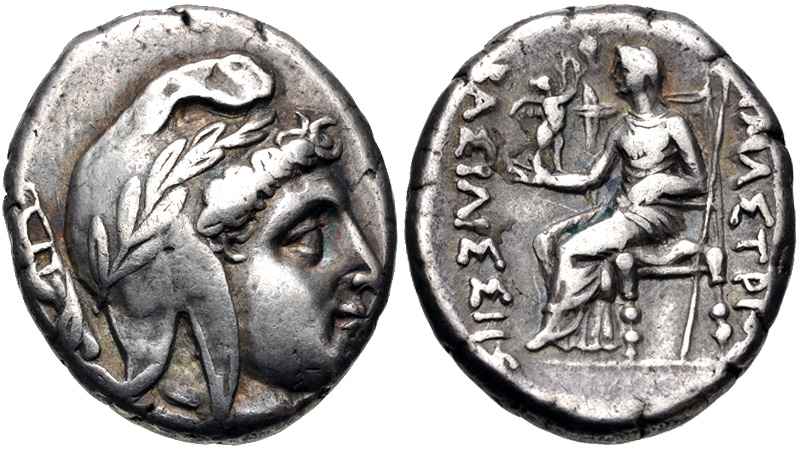 PAPHLAGONIA, Amastris. Queen Amastris. Circa 300-285 BC. AR Double Siglos – Stater (19mm, 9.74 g, 1h). Head of Mên right, wearing Phrygian cap adorned with laurel wreath; bow-in-bowcase to left / Aphrodite seated left, holding in extended right hand Eros, who presents wreath; above, facing head of Helios; lotus-tipped scepter to right, propped against throne. Callataÿ, Premier, Group 1A, 4a (D2/R4 – this coin); RG 1; HGC 7, 352. VF, toned, slightly off center on obverse. Very rare, Group 1A stater, 17 noted by Callataÿ, of which 6 are in museum collections, only 1 additional in CoinArchives.